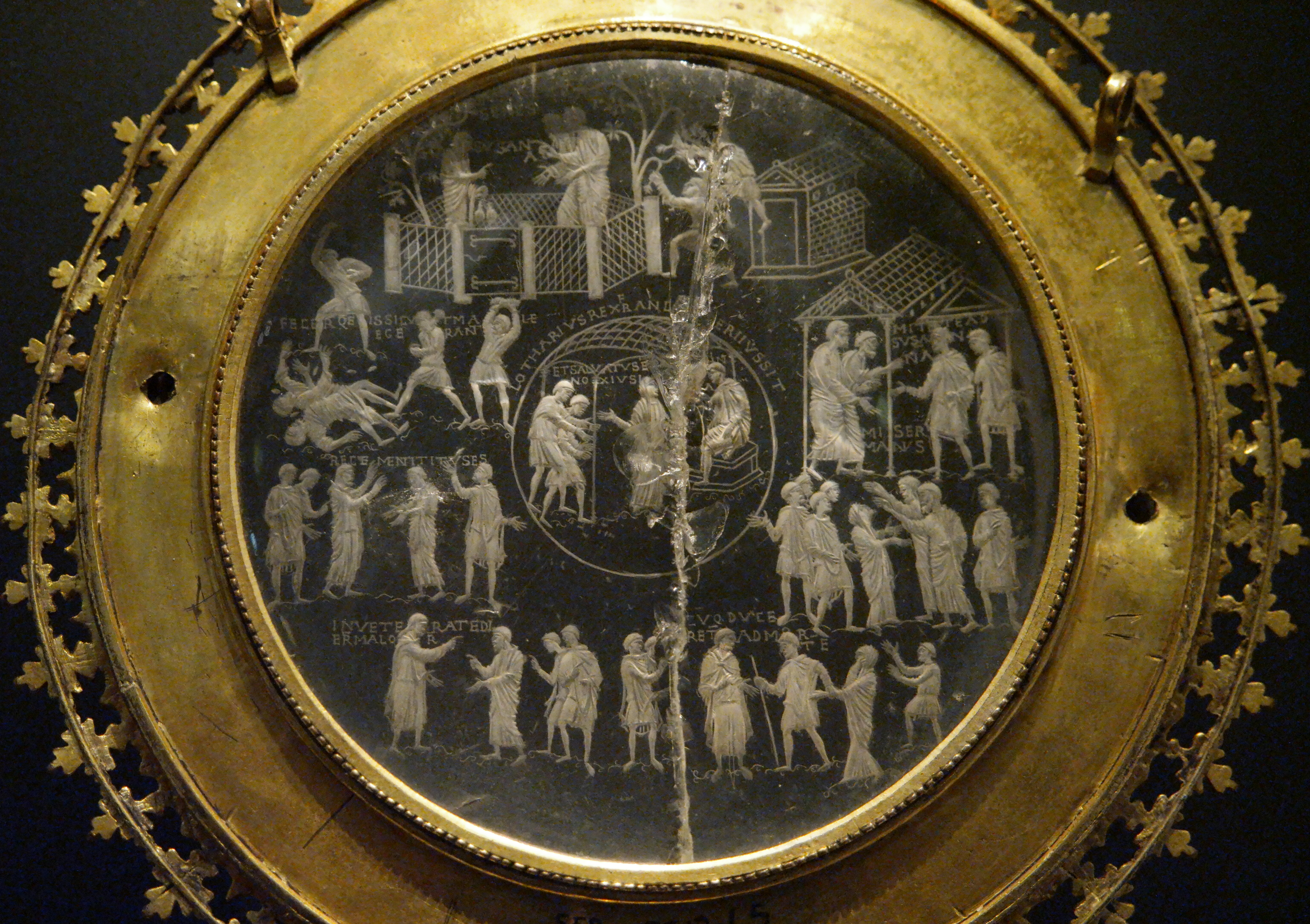 Engraved rock crystal probably made for King Lothair II. The Biblical story of Susanna and the Elders is depicted.